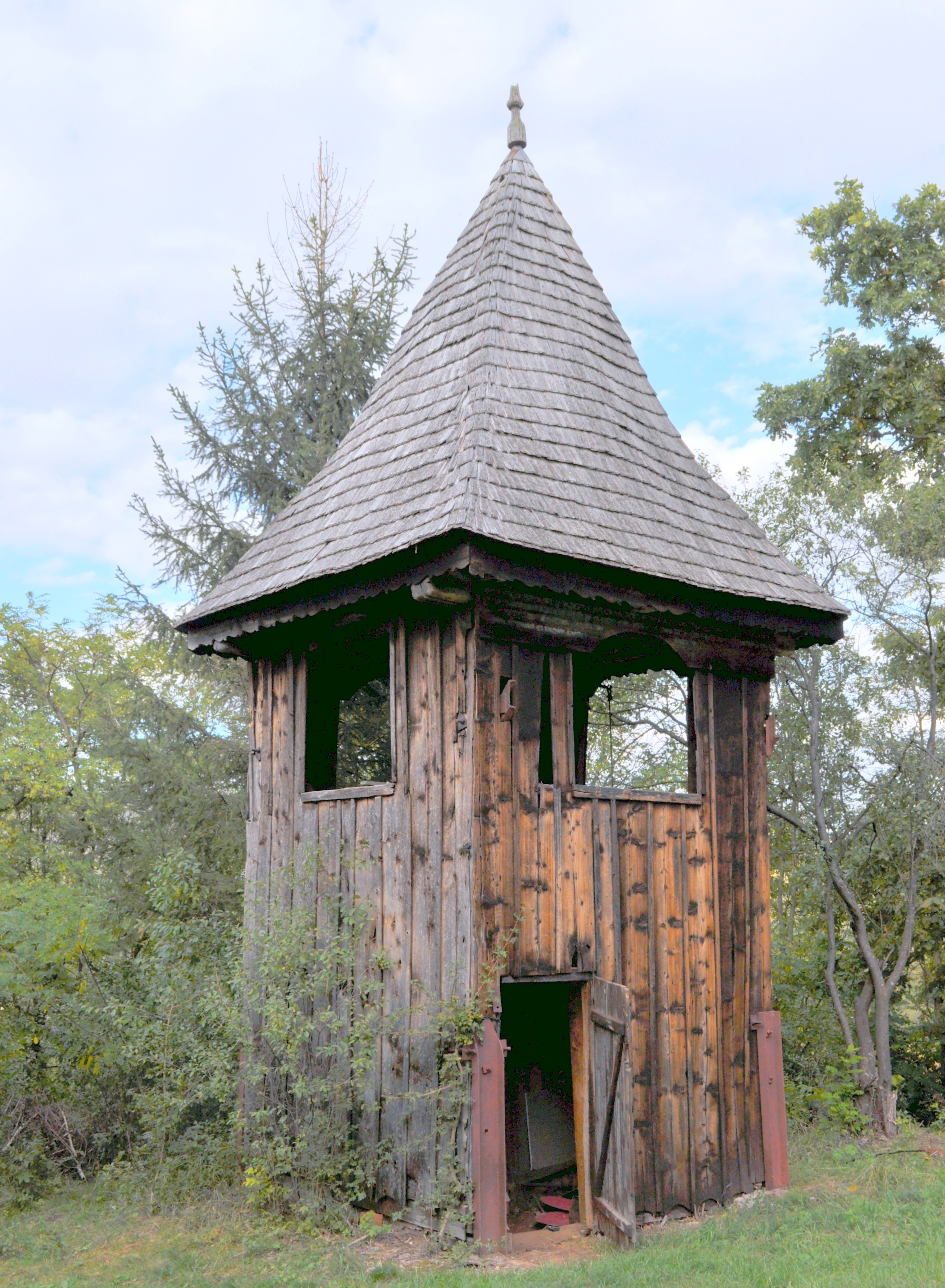 Reformed church in Căpușu Mic, Cluj County, Romania